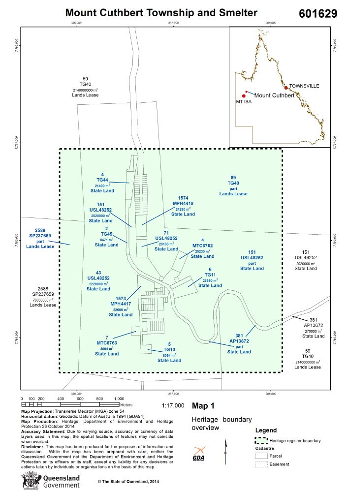 Mount Cuthbert Township and Smelter - boundary map (2014)